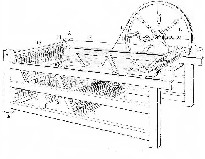 Spinning_Jenny_improved ( after Baines 1835- This was the Jenny that was in commercial use: Images from Marsden 1884 book on Cotton Spinning. *Marsden, Richard (1884) (in english) Cotton Spinning: its development, principles an practice., George Bell and Sons 1903, p. 203 Retrieved on 26 April 2009.